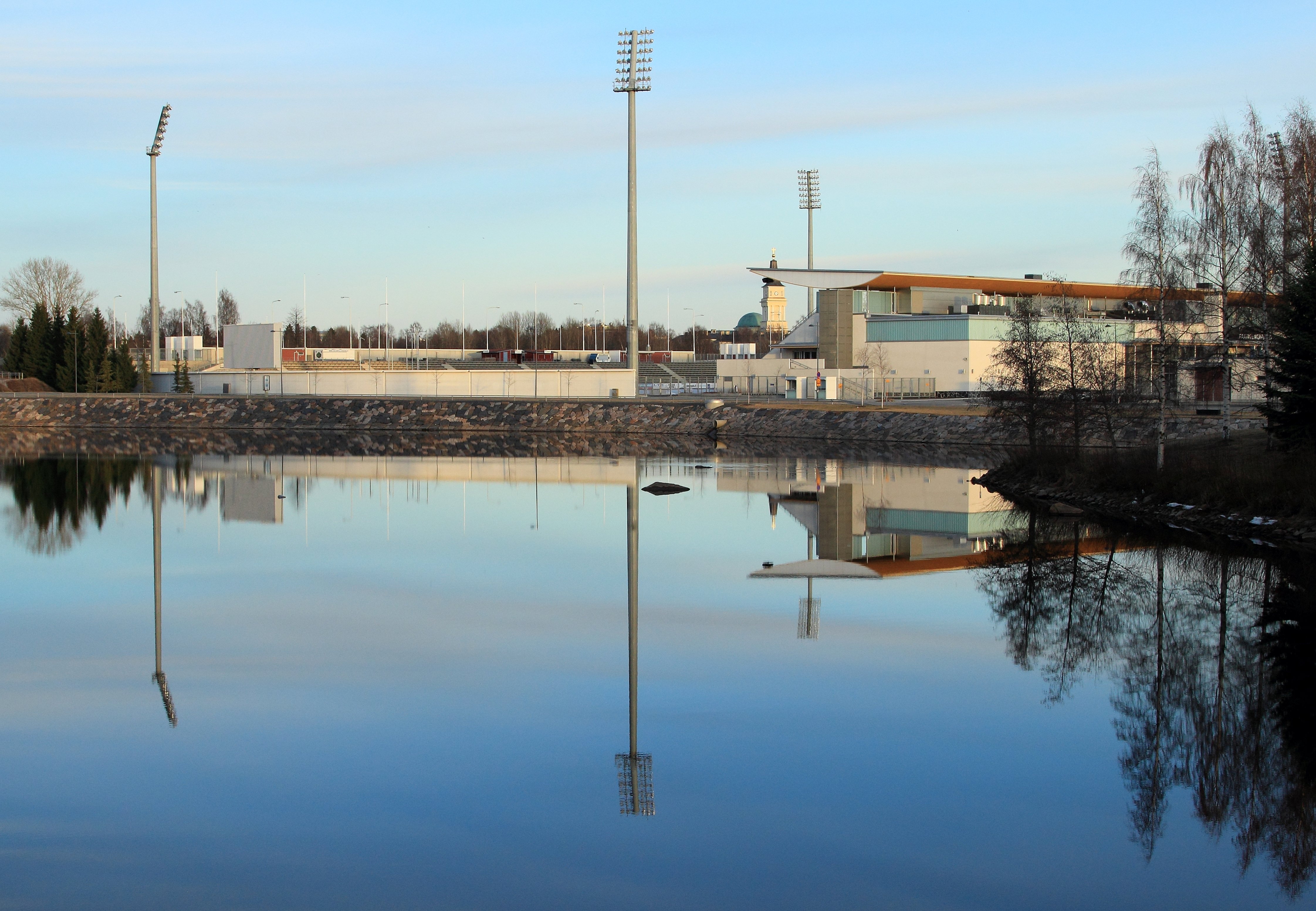 The Raatti Sports Centre in Oulu.